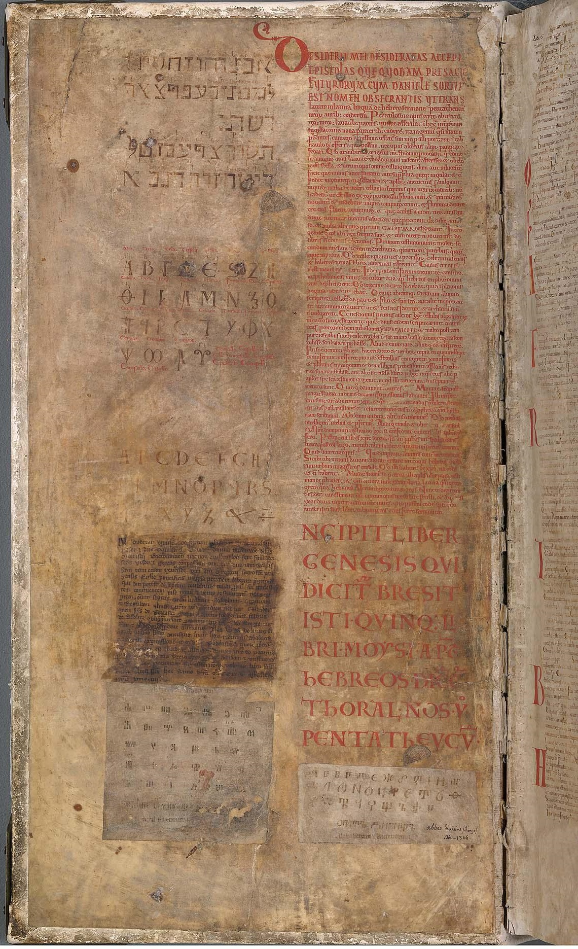 Page on alphabets from the Codex Gigas